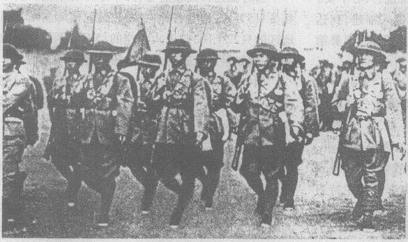 19th Route Army of the National Revolutionary Army in Fujian during the People's Revolutionary Government of the Republic of China.